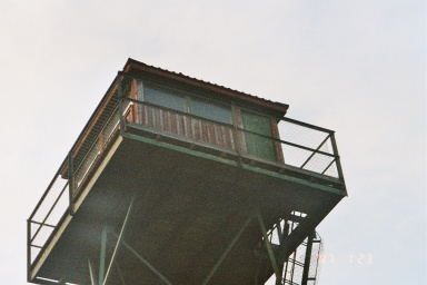 Picture of the tower on Tomtabacken in Sweden